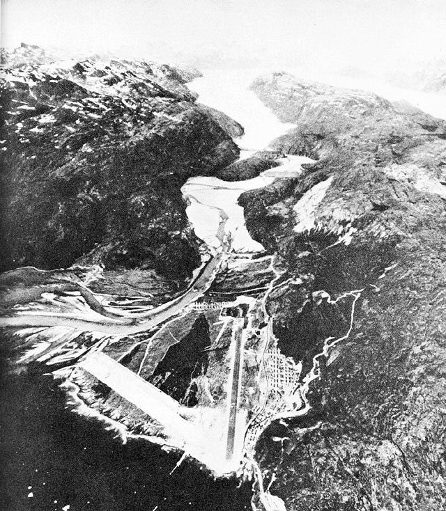 Airphoto of Narsarssuak AB Greenland, June 1942